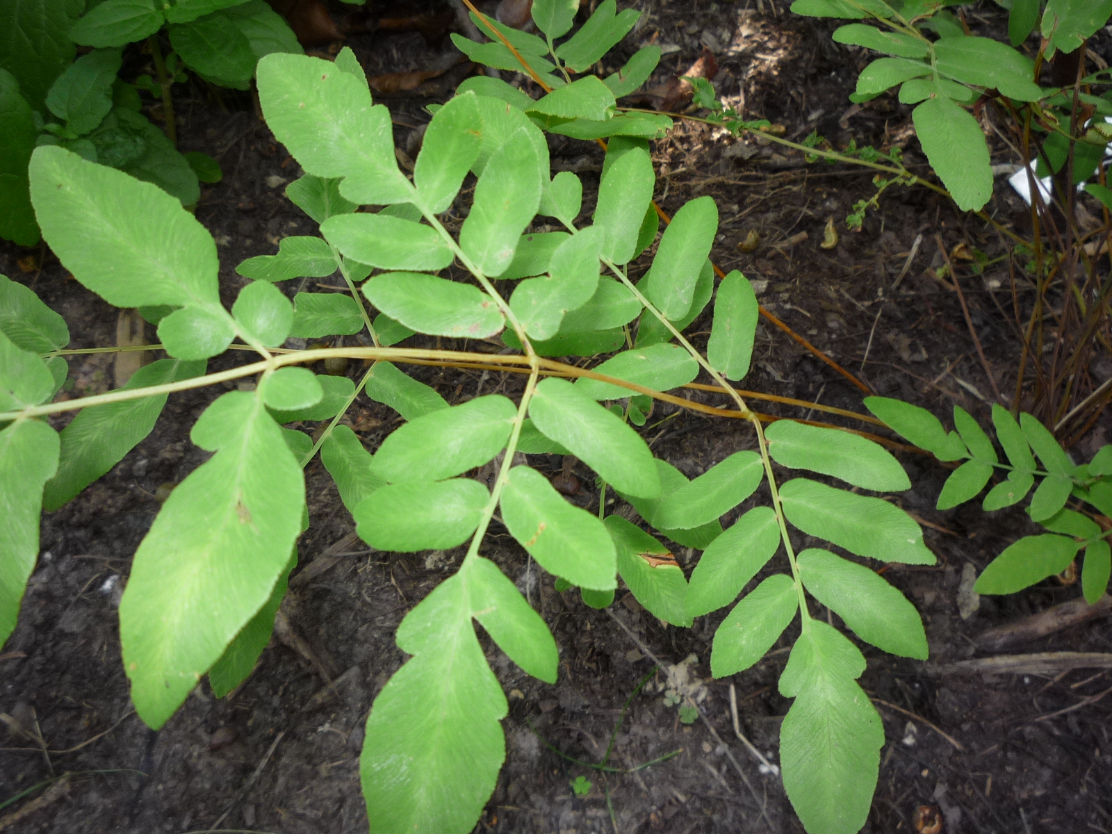 Closeup of the sterile fronds of a royal fern in cultivation in Maryland, United States. As it was purchased at a native plant nursery I assume it is Osmunda regalis var. spectabilis (the American variety), although I don't have the knowledge to get into fine points of the classification.